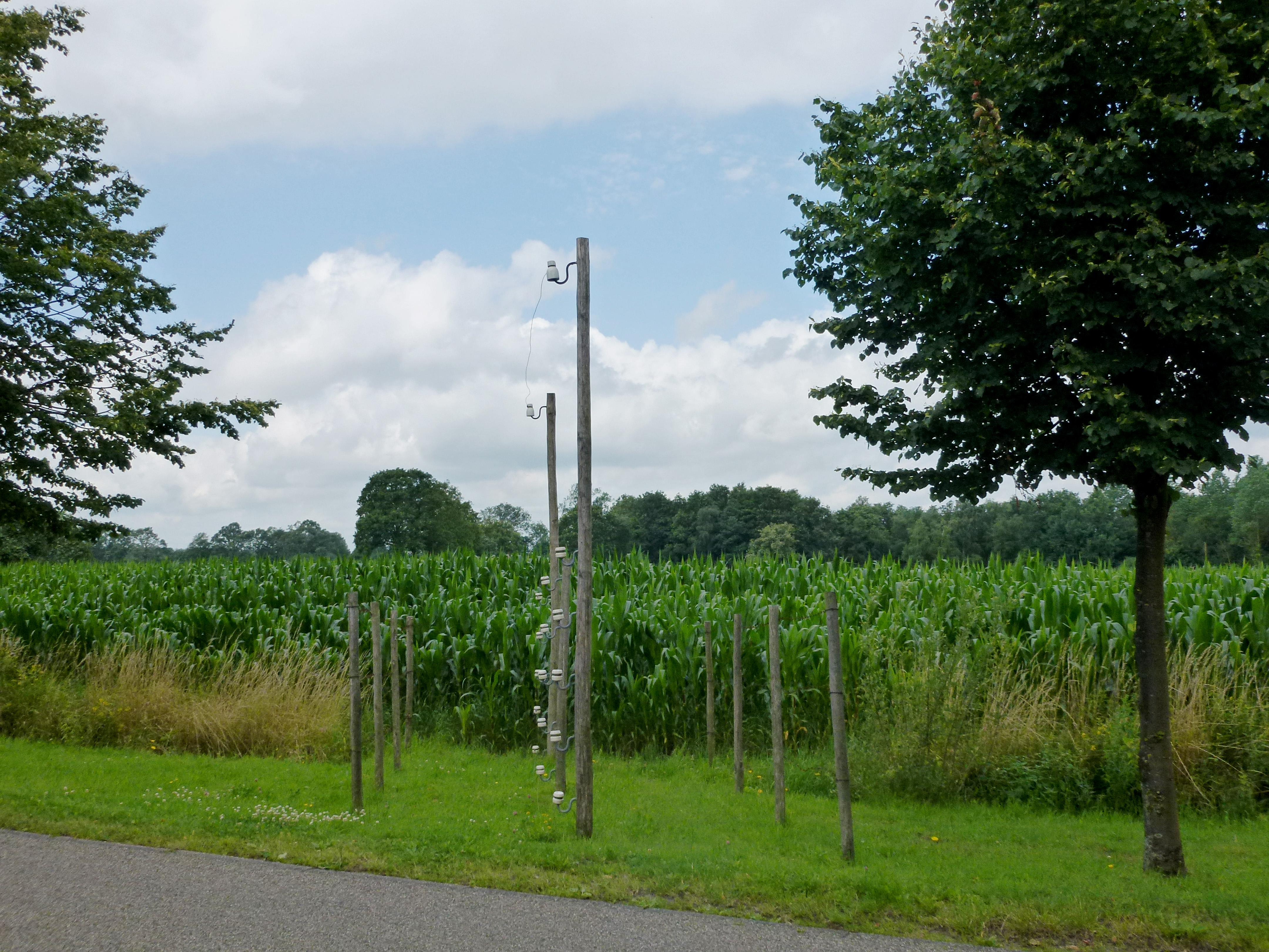 Wire of death